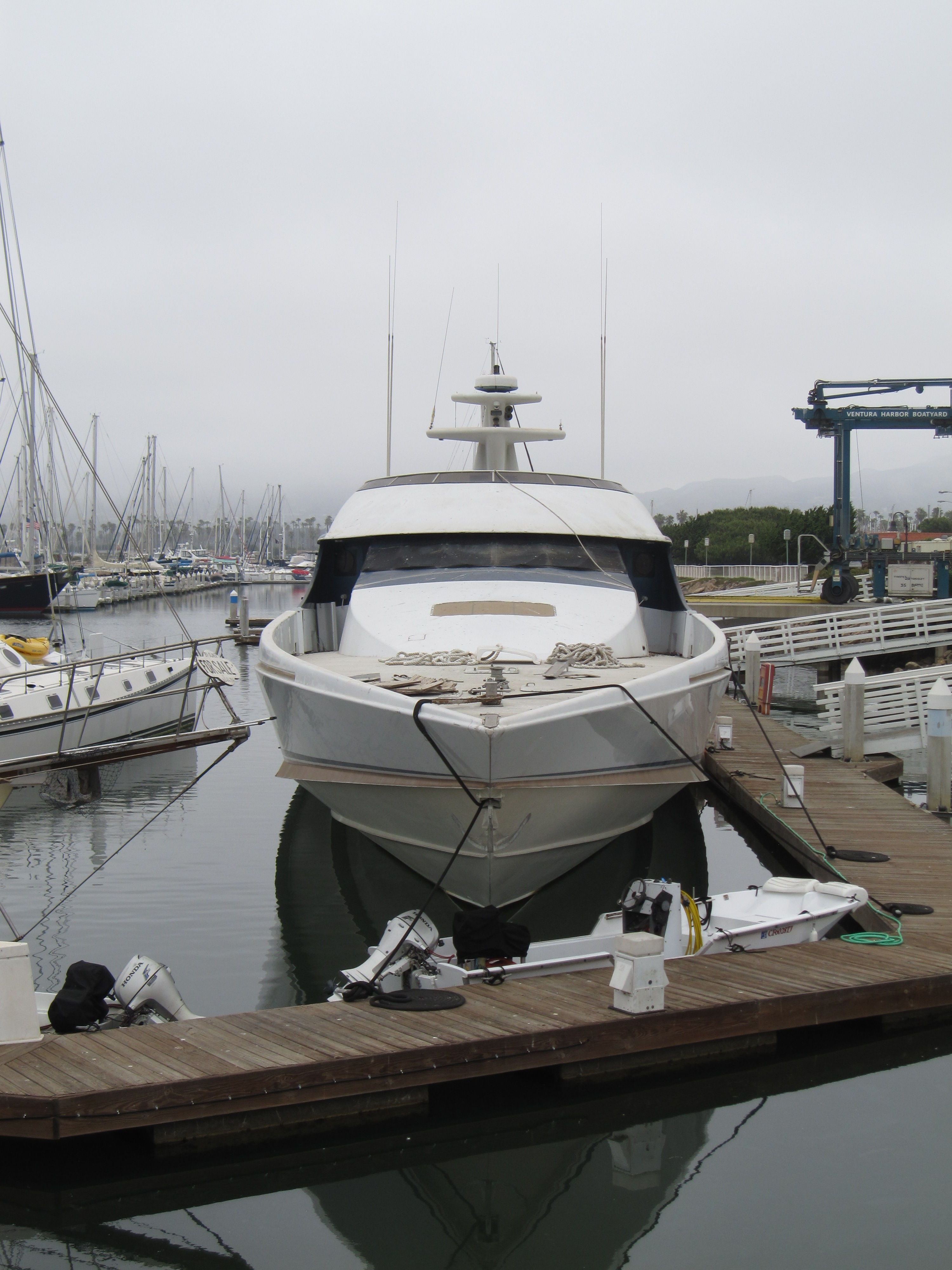 Picture of the Gentry Eagle race yacht.